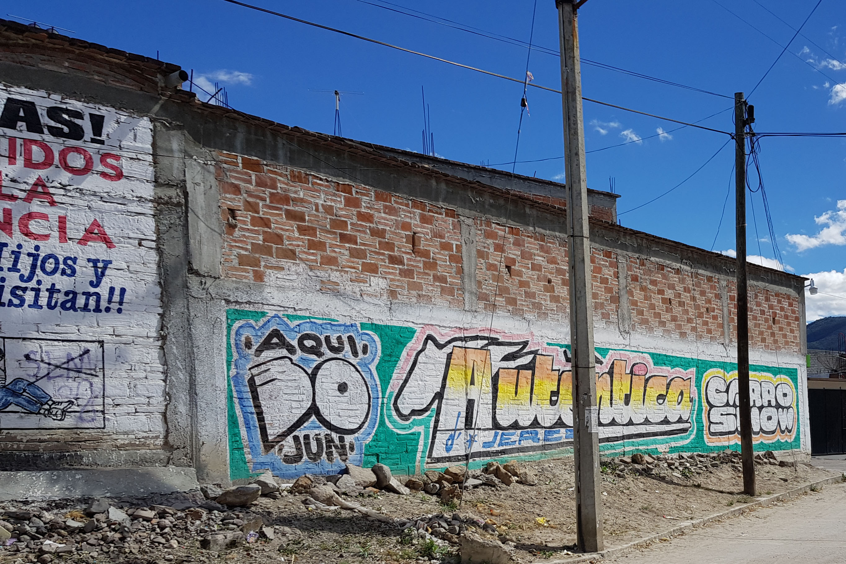 'Barda des Baille (Music Wall)' in the Mexican region of Oaxaca.